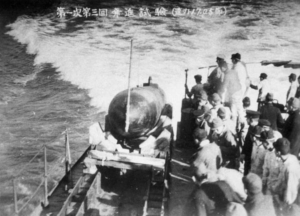 Kaiten Type 1 launch test from starboard of HIJMS Kitakami